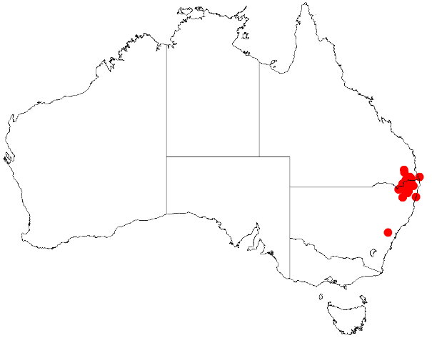 Acacia brunioides Occurrence data from Australasian Virtual Herbarium downloaded from on 8 December 2018